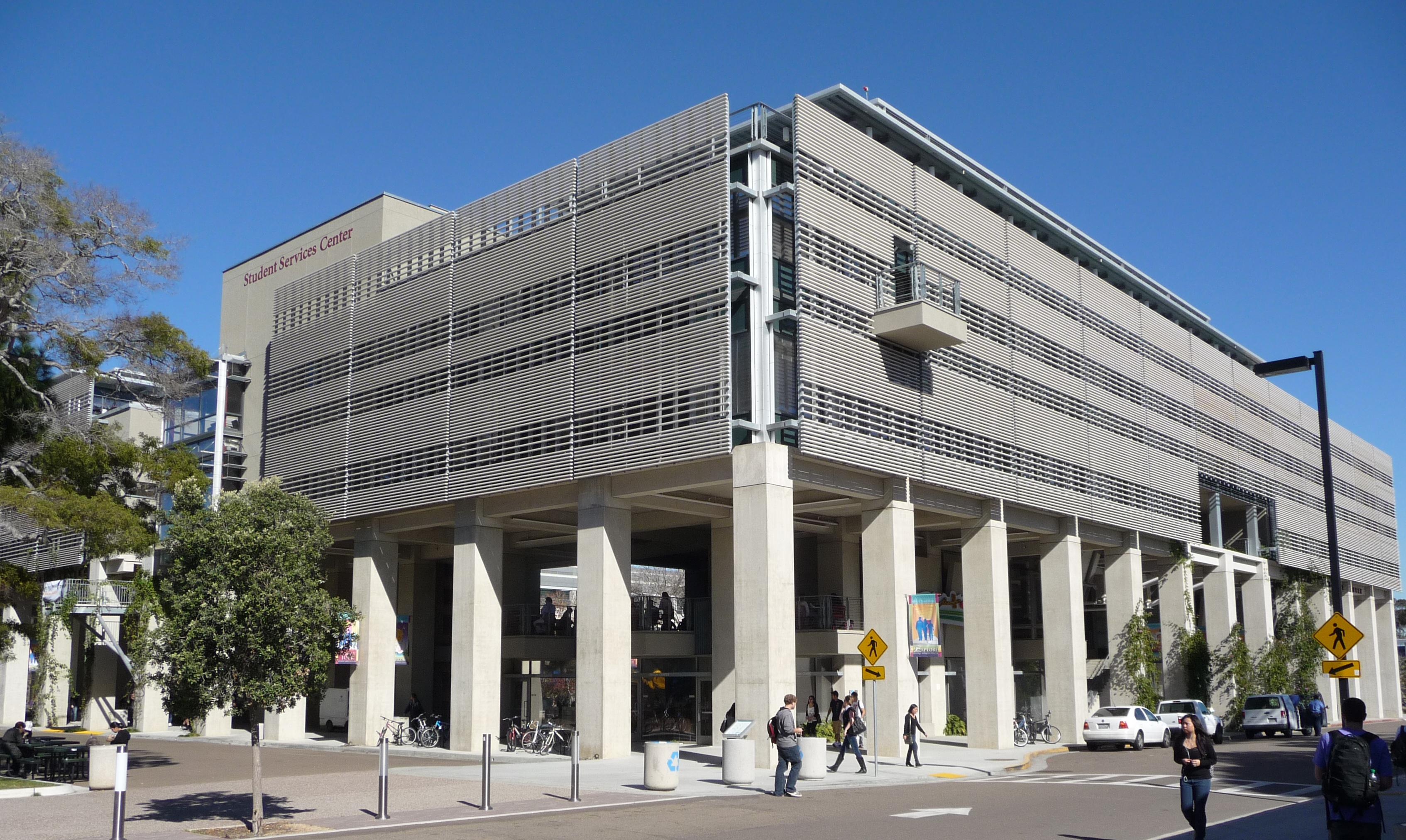 The Student Services Center in University Center at UCSD.